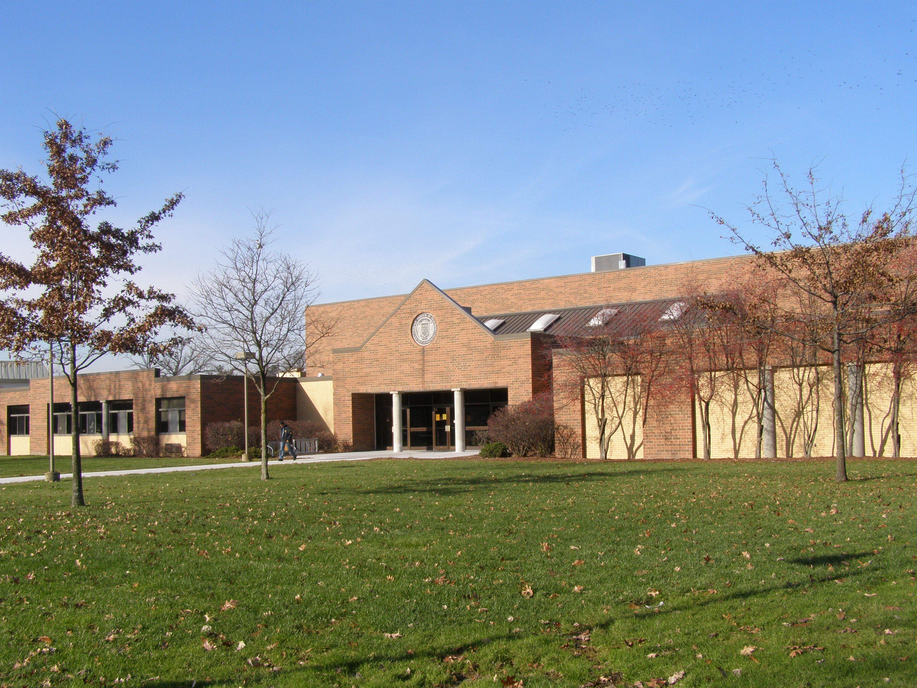 The photograph shows the Don Ridler Fieldhouse at Lawrence Technological University